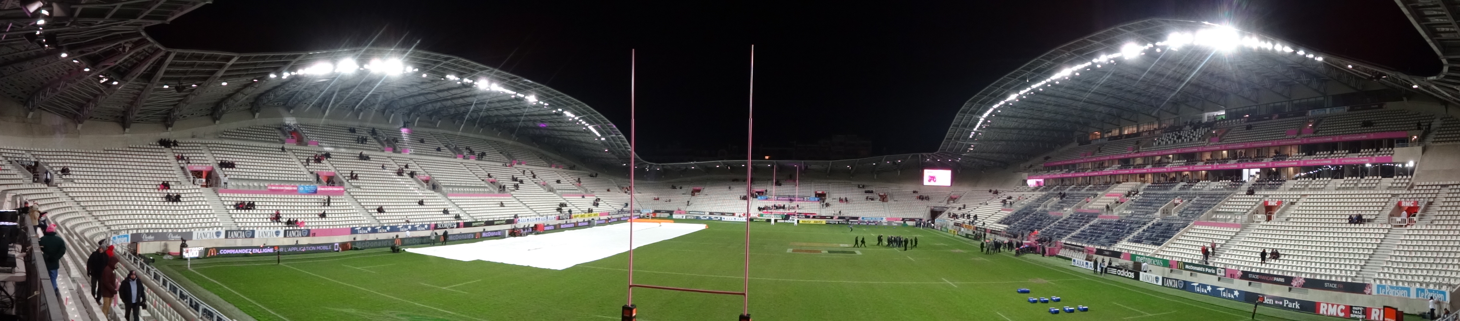 New Jean Bouin Stadium, Paris (panoramique) 2014